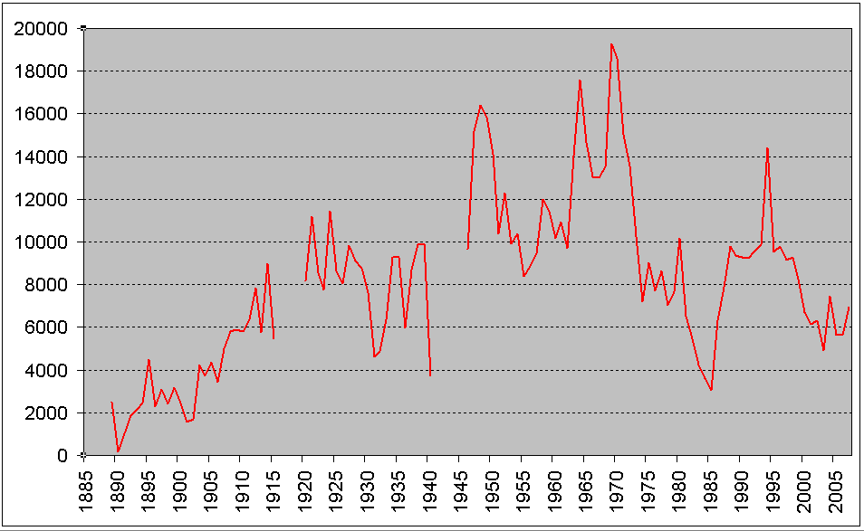 Graph of Swindon Town F.C.'s average attendances since 1889